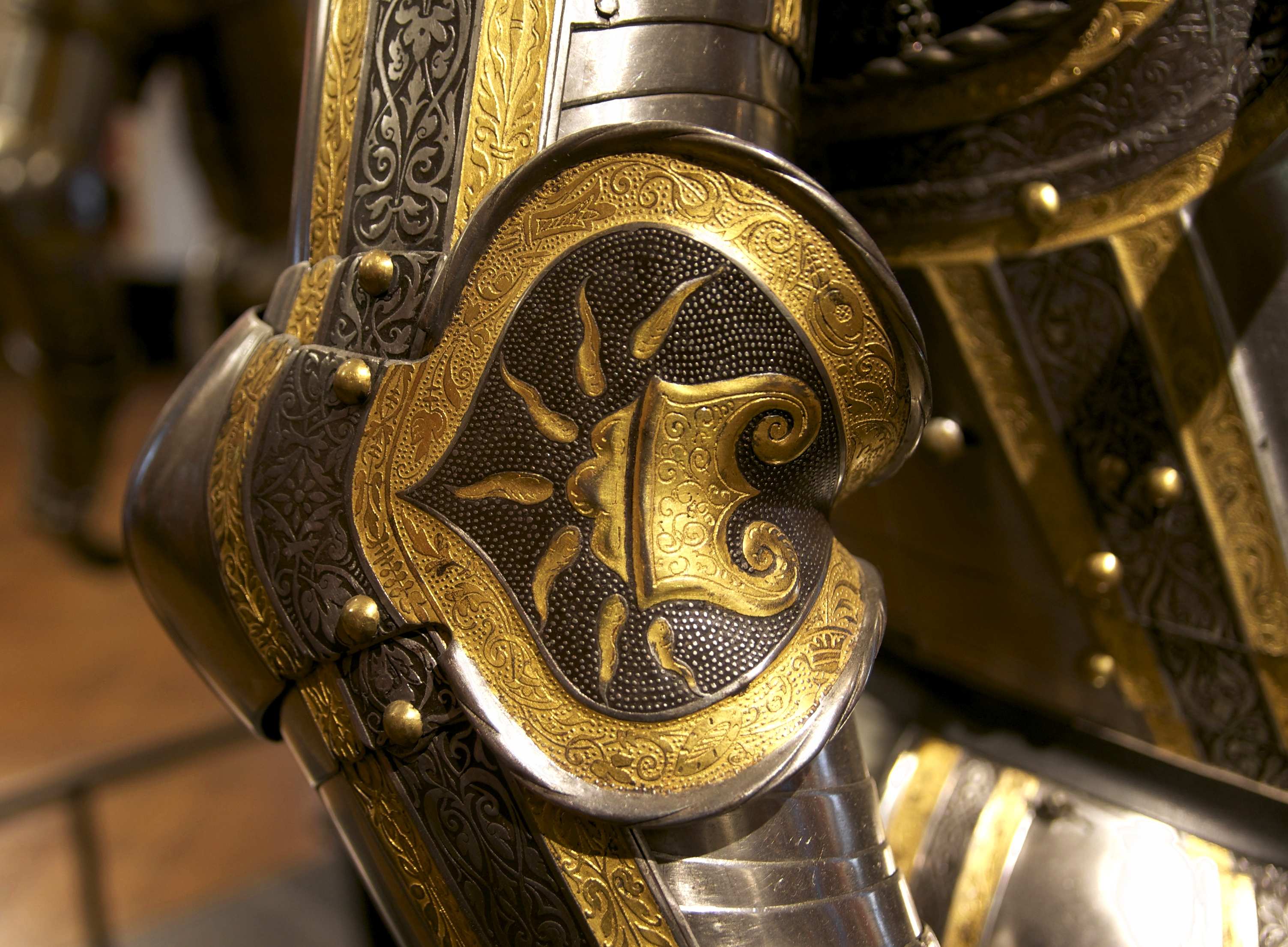 Couter of an Imperial armour, decorated with the Firesteel, one of the symbols of the House of Habsburg (see the Golden Fleece collars). Kunsthistorisches Museum, Collection of Arms et Armours, Neue Burg, Hofburg palace, Vienna, Austria.